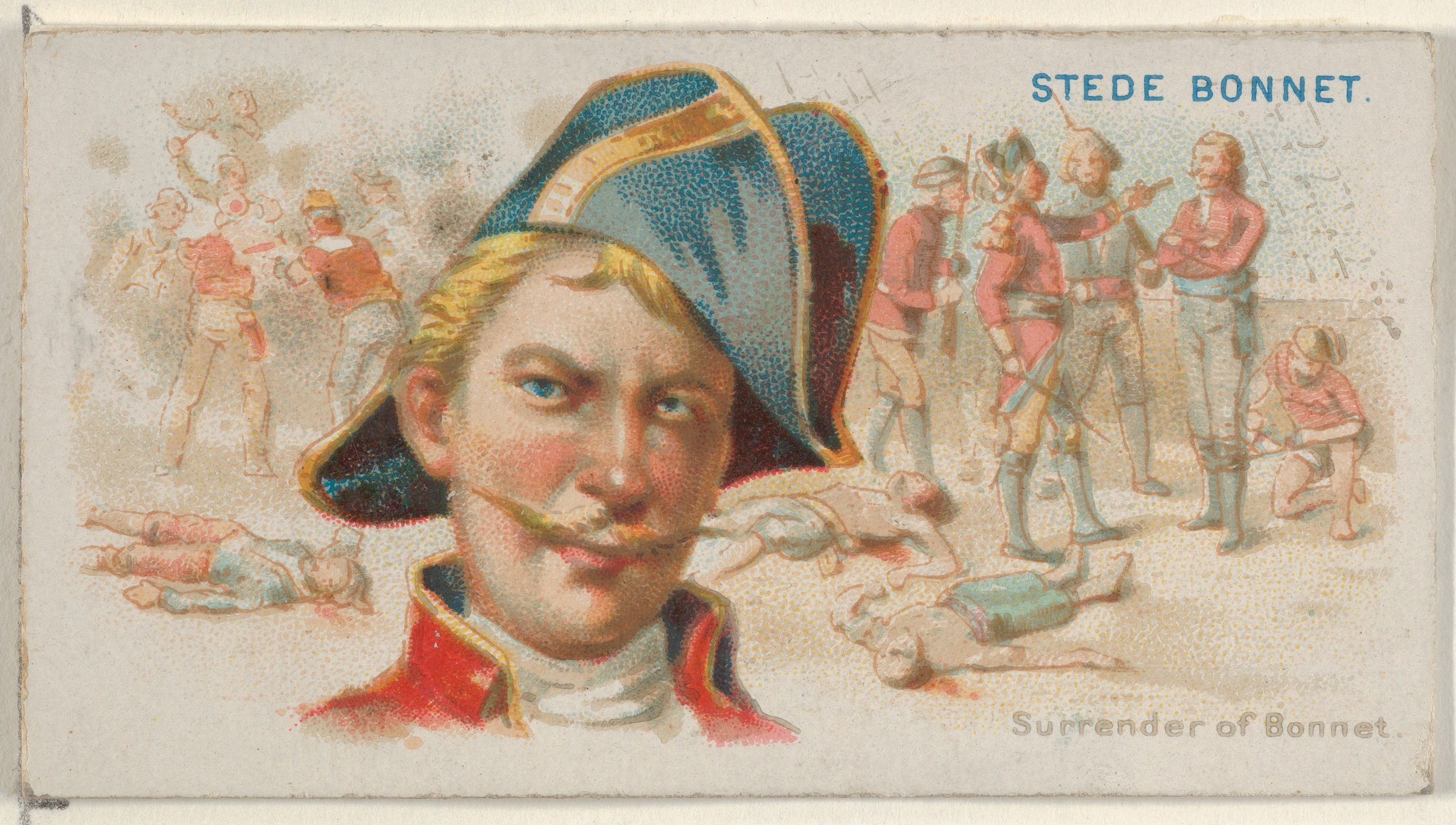 Print; Prints